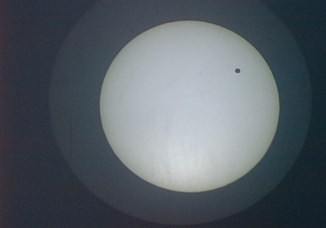 Image of transit of Venus on June 8th 2004, taken by JN Planetarium,Bangalore,. It isn't copyrighted and was shot by a group of students and astrophysicists (which includes me) Taken June 8th, 2004 at 13:11:16 IST at the JN Planetarium in Bangalore.